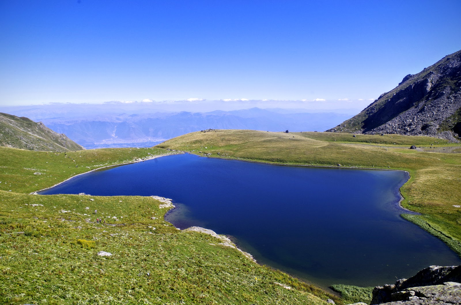 glacial Black lake on Shar Mountain, Macedonia